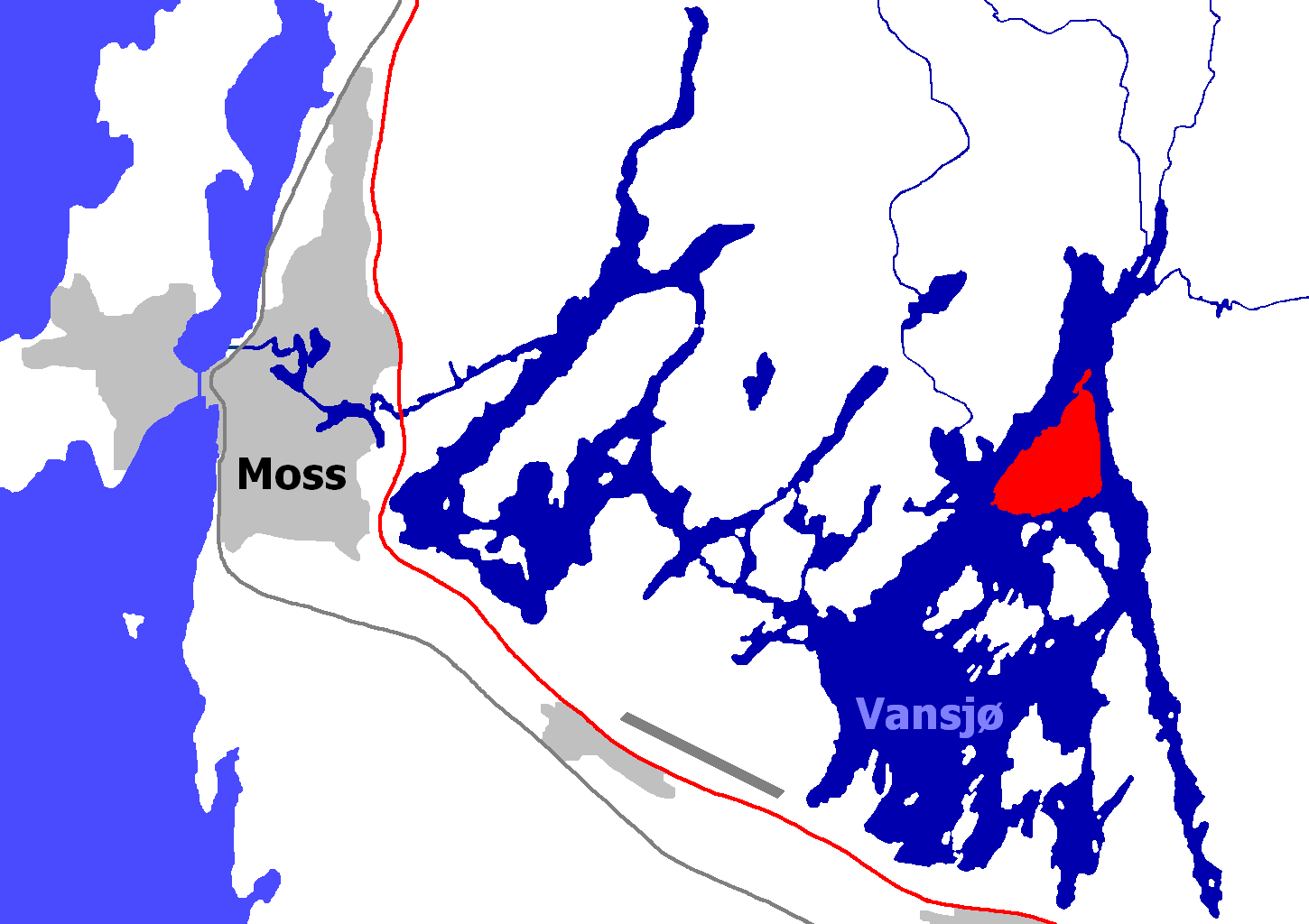 Map of the lake Vansjø. The island of Gressøya in red. Created by JohnM 21:37, 20 May 2006 (UTC)